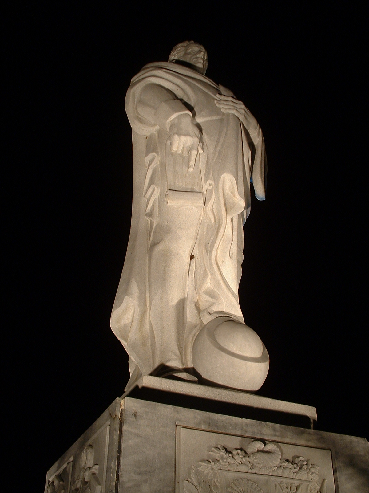 Night-time photo of the statue of Simón Bolívar by the Peruvian artist Joaquín Roca Rey, at the Simón Bolívar University in Caracas, Venezuela.